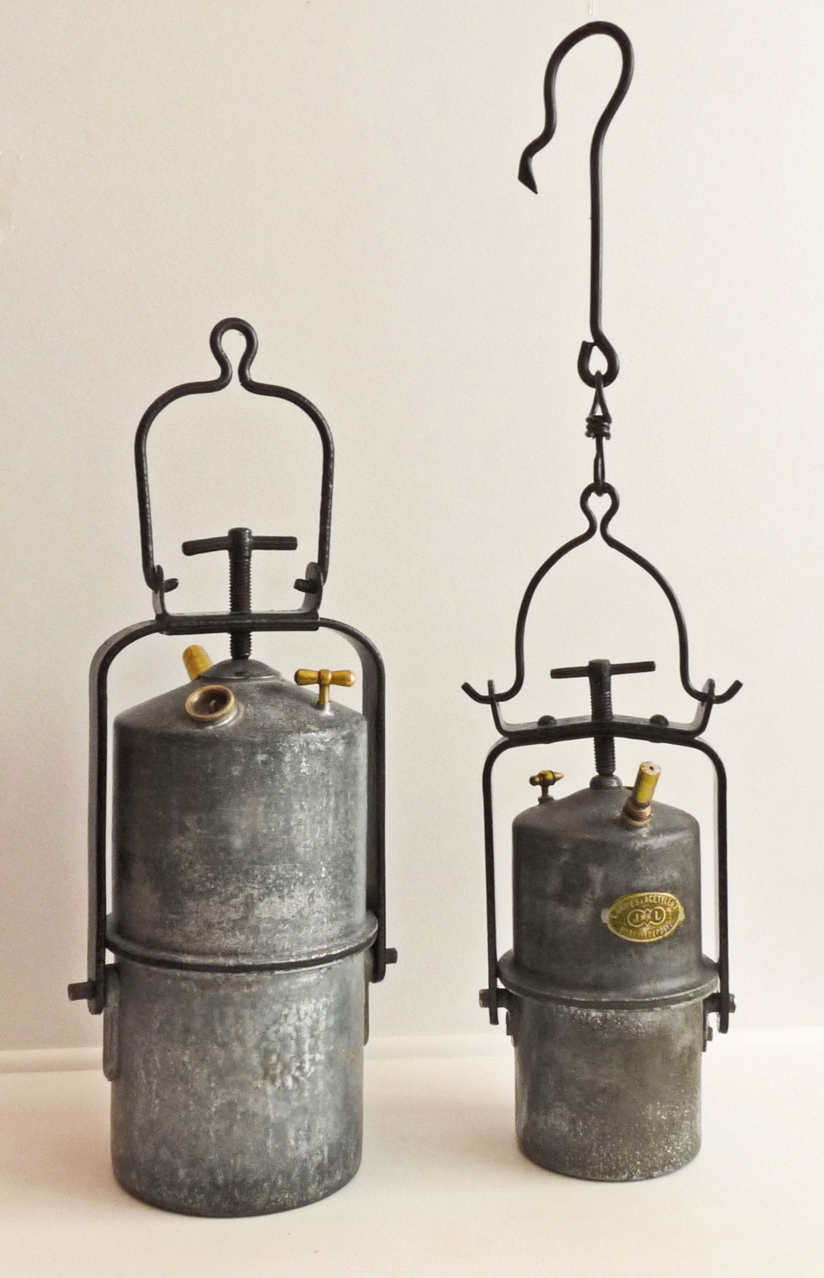 acetylene torches used in the building industry in 1950.